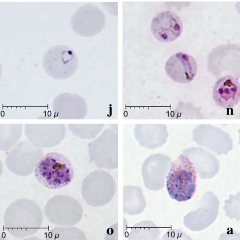 Giemsa-stained thin smears of Plasmodium knowlesi infecting human red blood cells. Various life stages shown: early trophozoite (top left), late trophozoites (top right), schizont (bottom left), gametocyte (bottom right).